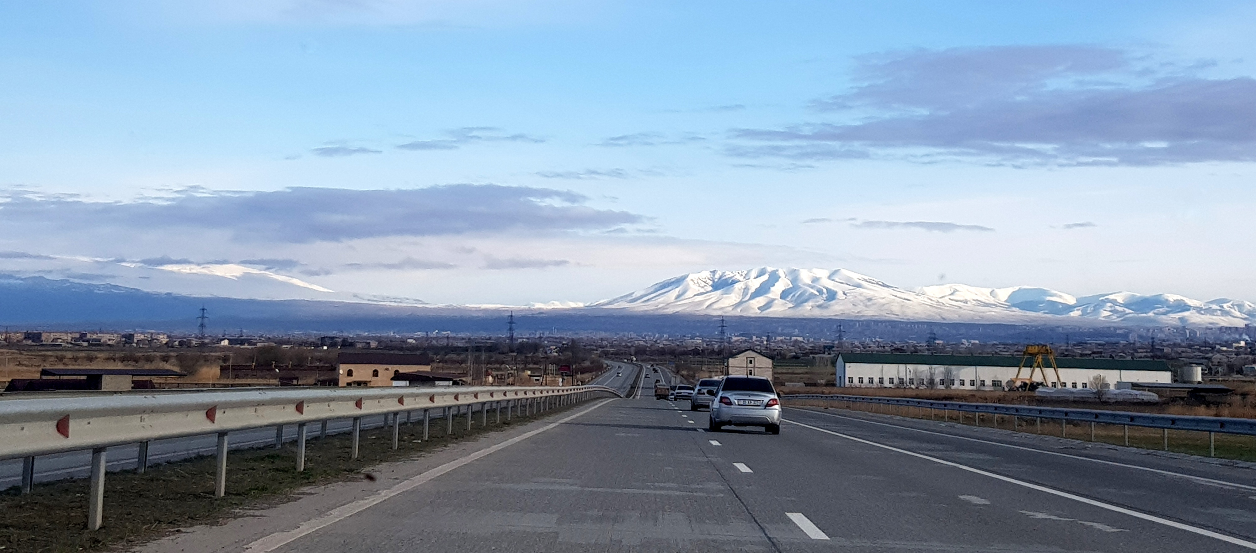 Aragats from M2 highway